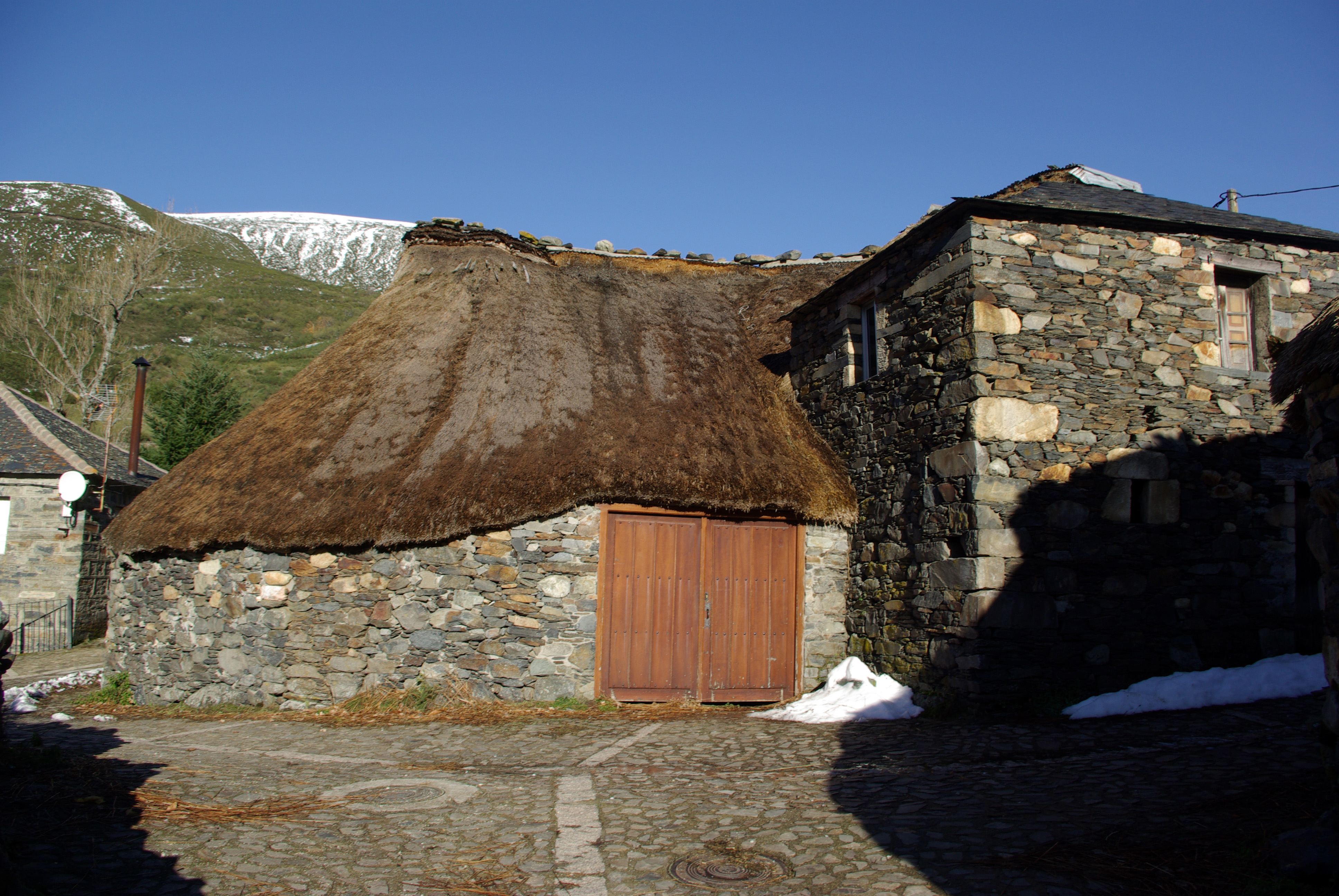 A thatched straw house in Balouta, Candín (León, Spain)